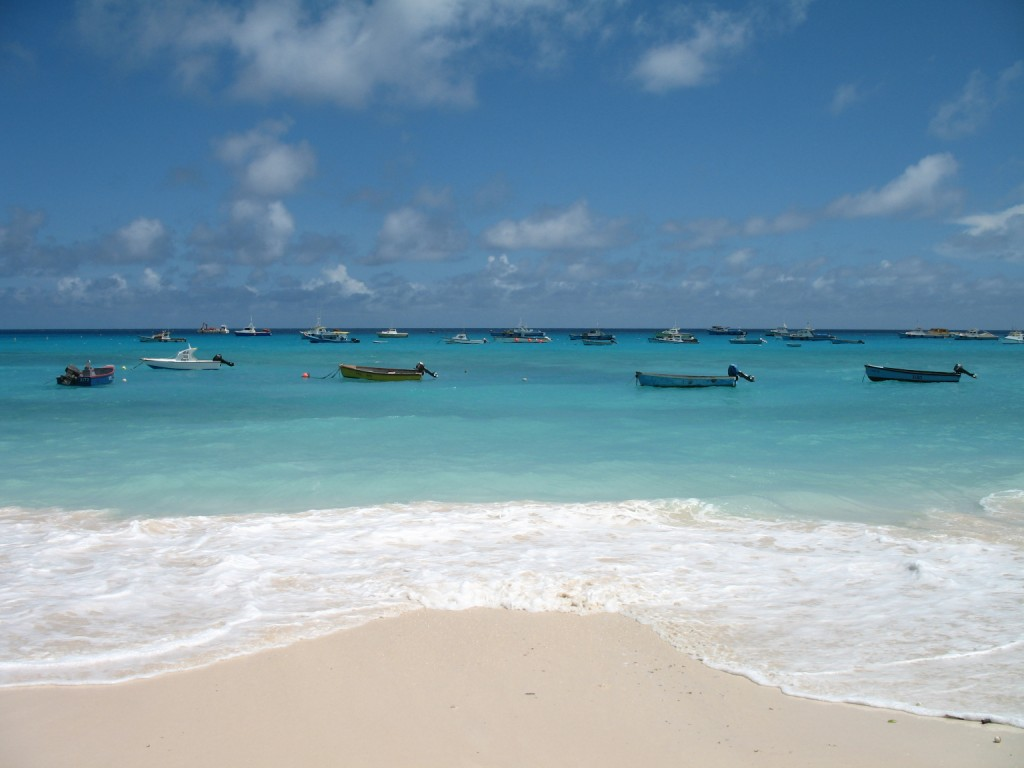 Barbados beach scenerie